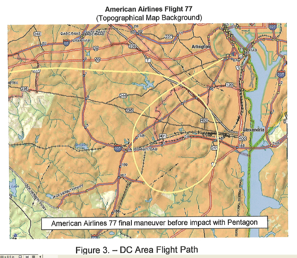 American Airlines Flight 77 - DC area flight path